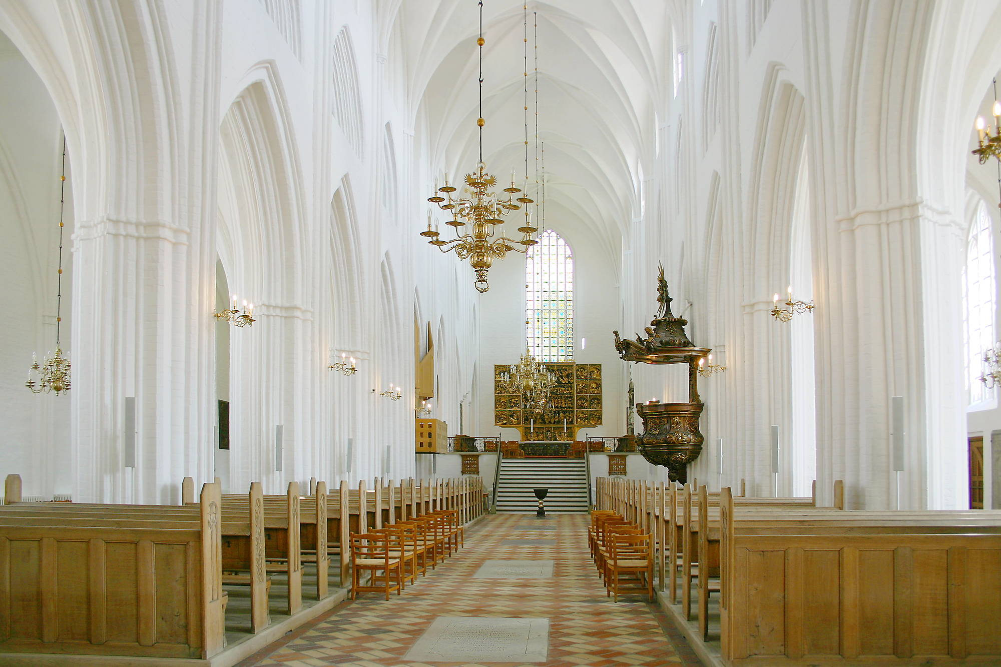 Sankt Knuds Cathedral, Odense, Denmark